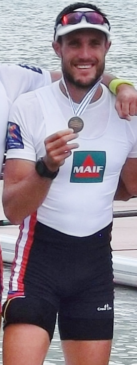 Sight of four French rowers showing to the (mostly French) public their bronze medal, during the 2015 World Rowing Championships, on the lac d'Aiguebelette lake, in Savoie, France.